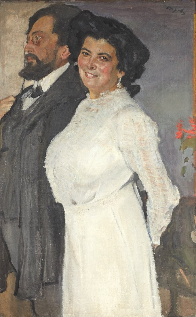 Portrait of attorney Oscar Osipovich Grusenberg with his wife (Rosa Grigoryevna).